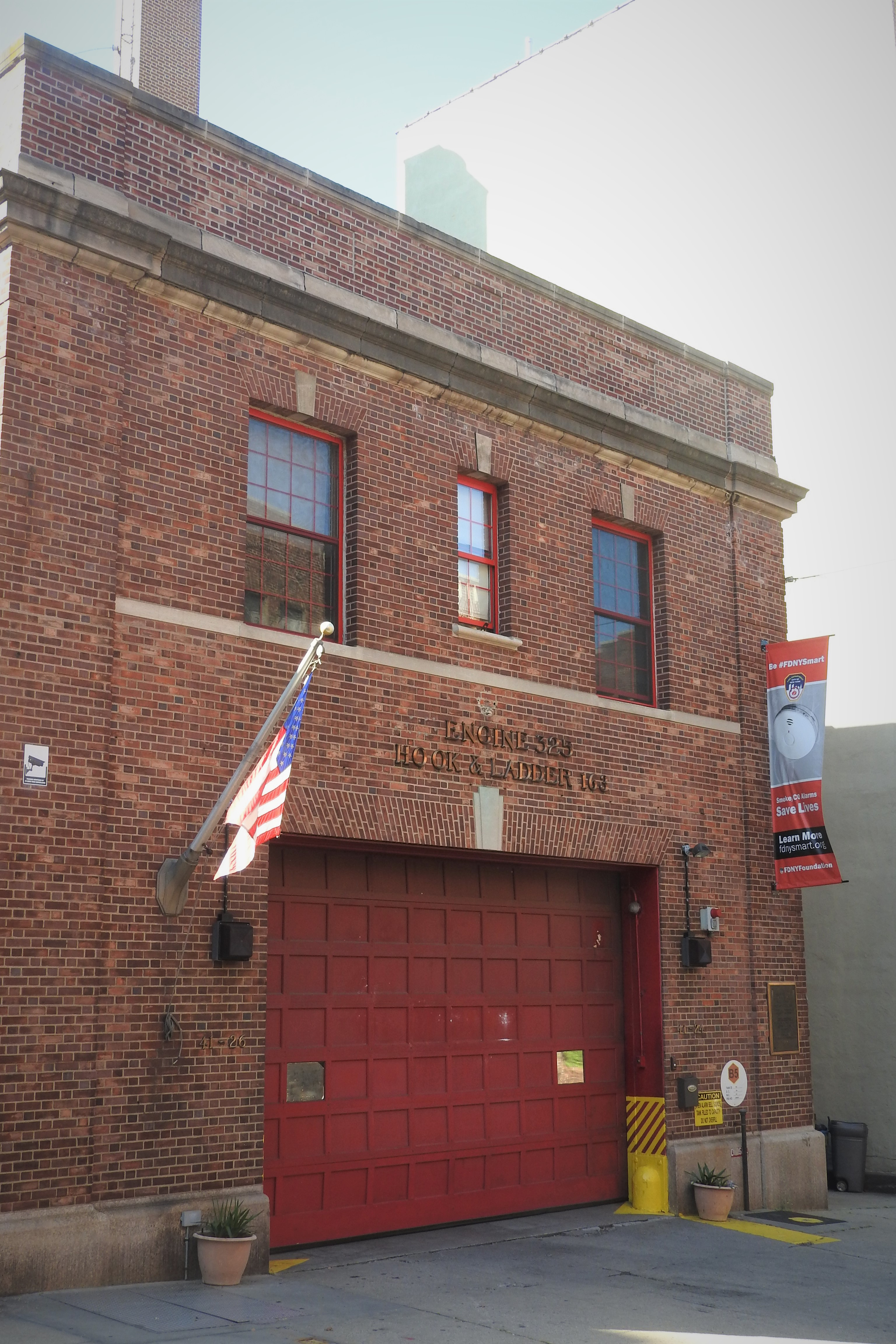 Looking northwest at firehouse on a sunny afternoon